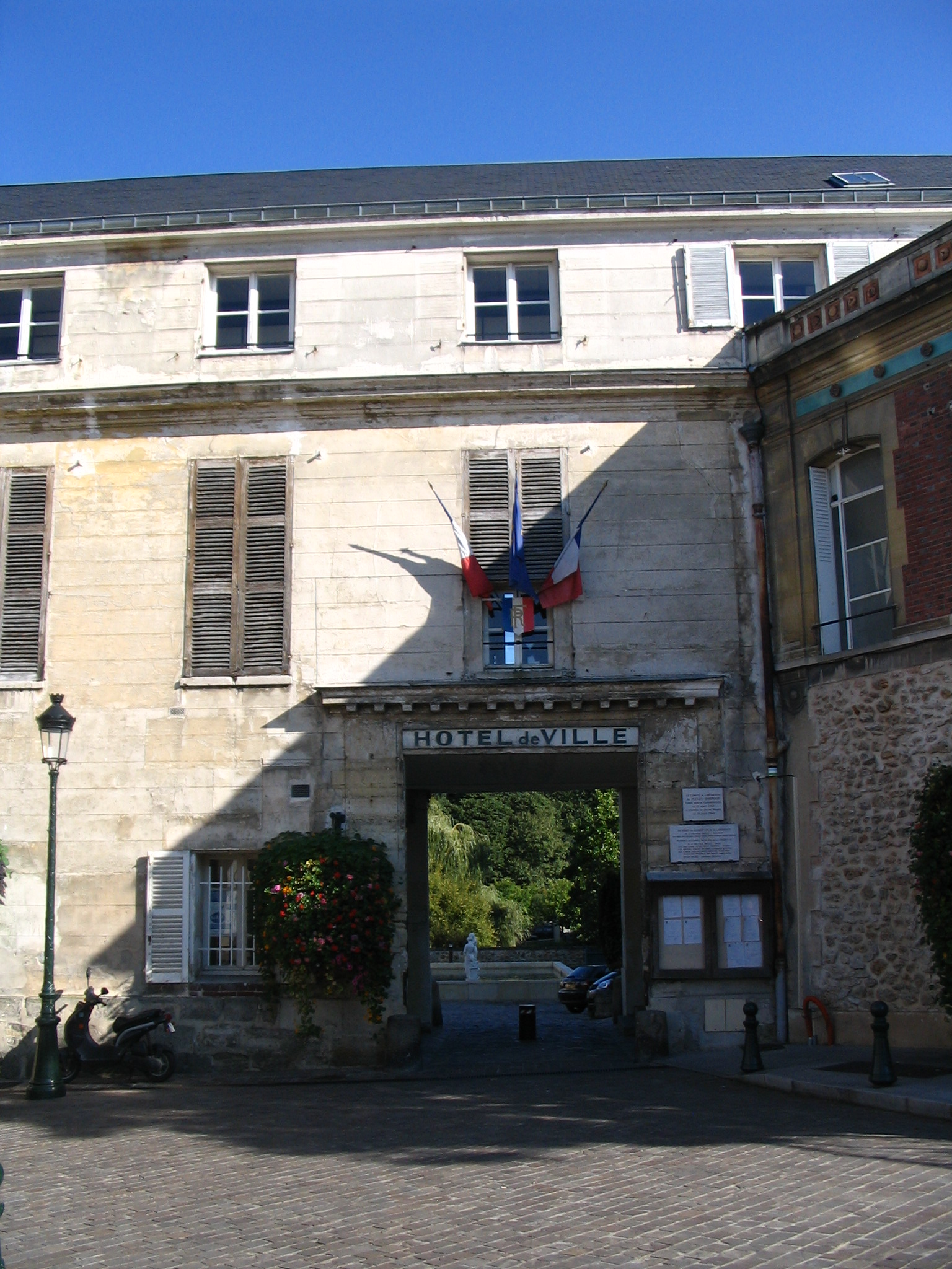 The town hall of Le Plessis-Robinson, Hauts-de-Seine, France.